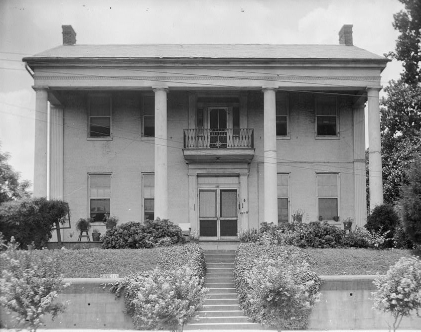 Anchuca, a.k.a. the Victor Wilson House, 1010 First East Street, Vicksburg, Warren County, MS. FRONT (NORTH ELEVATION.)